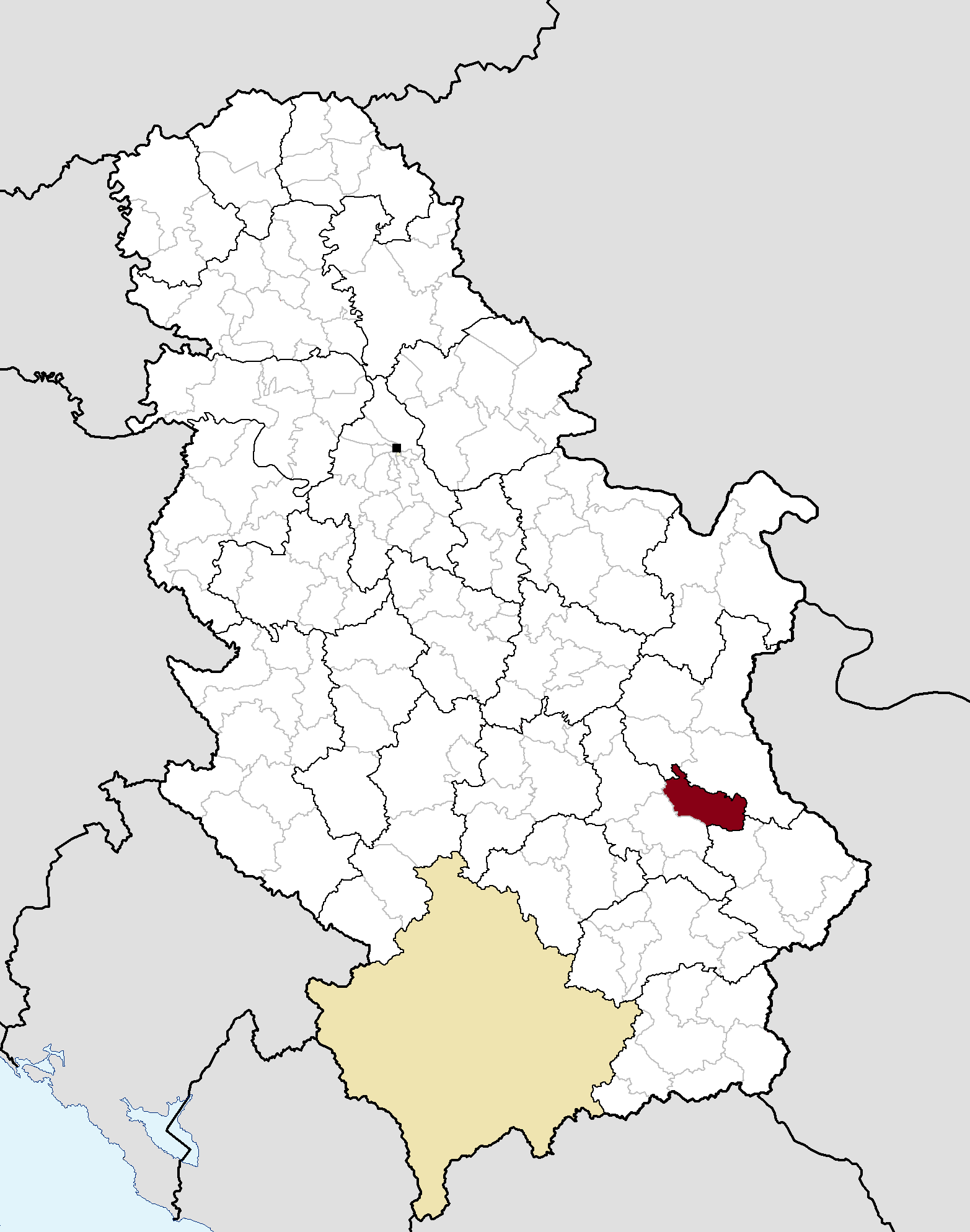 Municipal location in Serbia